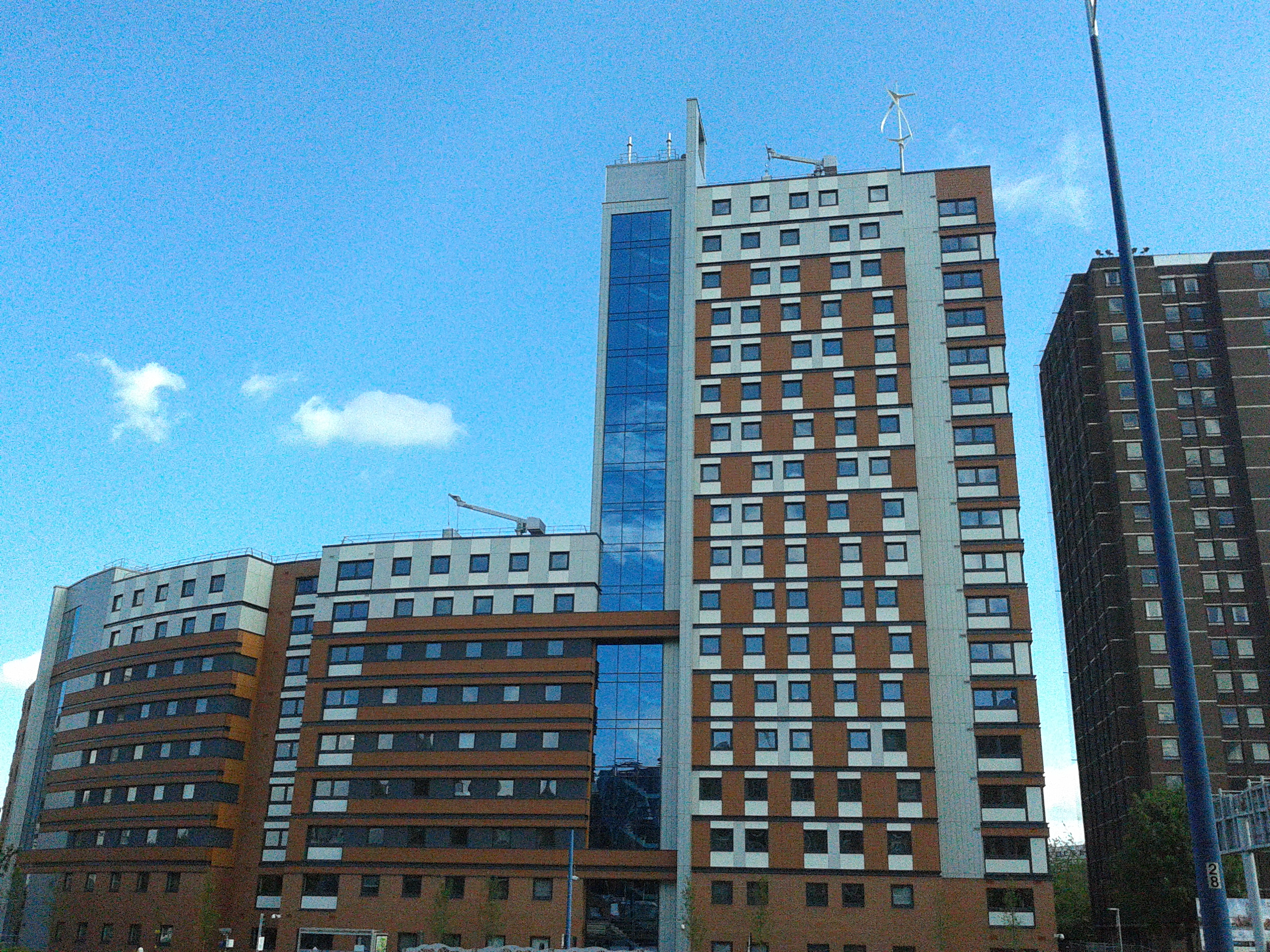 The student residences at Aston University are complete. Should open in September 2013. James Watt Queensway view, with Stafford Tower (whose days are numbered). Harriet Martineau and Mary Sturge.